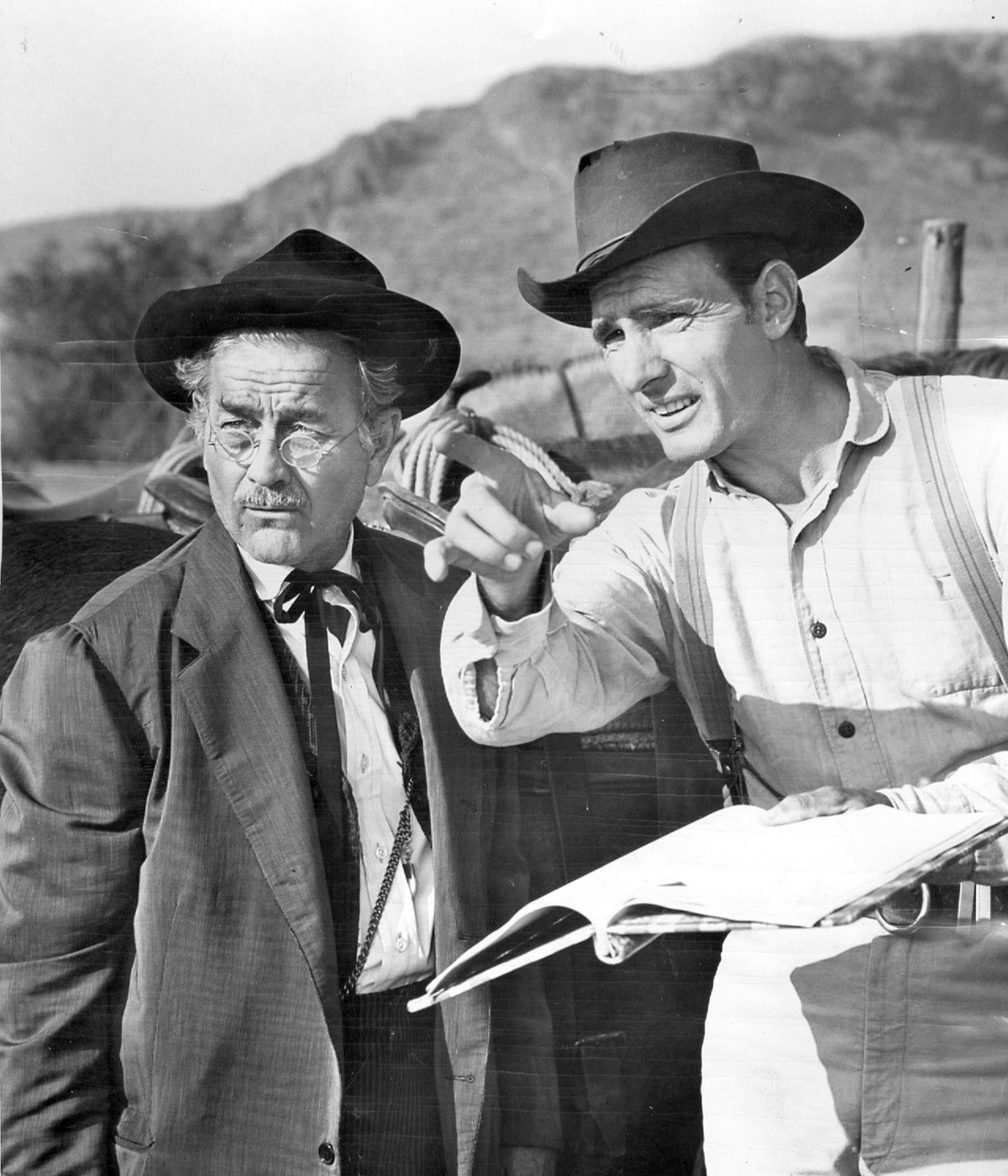 Photo of Milburn Stone (Doc Adams) and Dennis Weaver (Chester Goode) from the television program Gunsmoke.